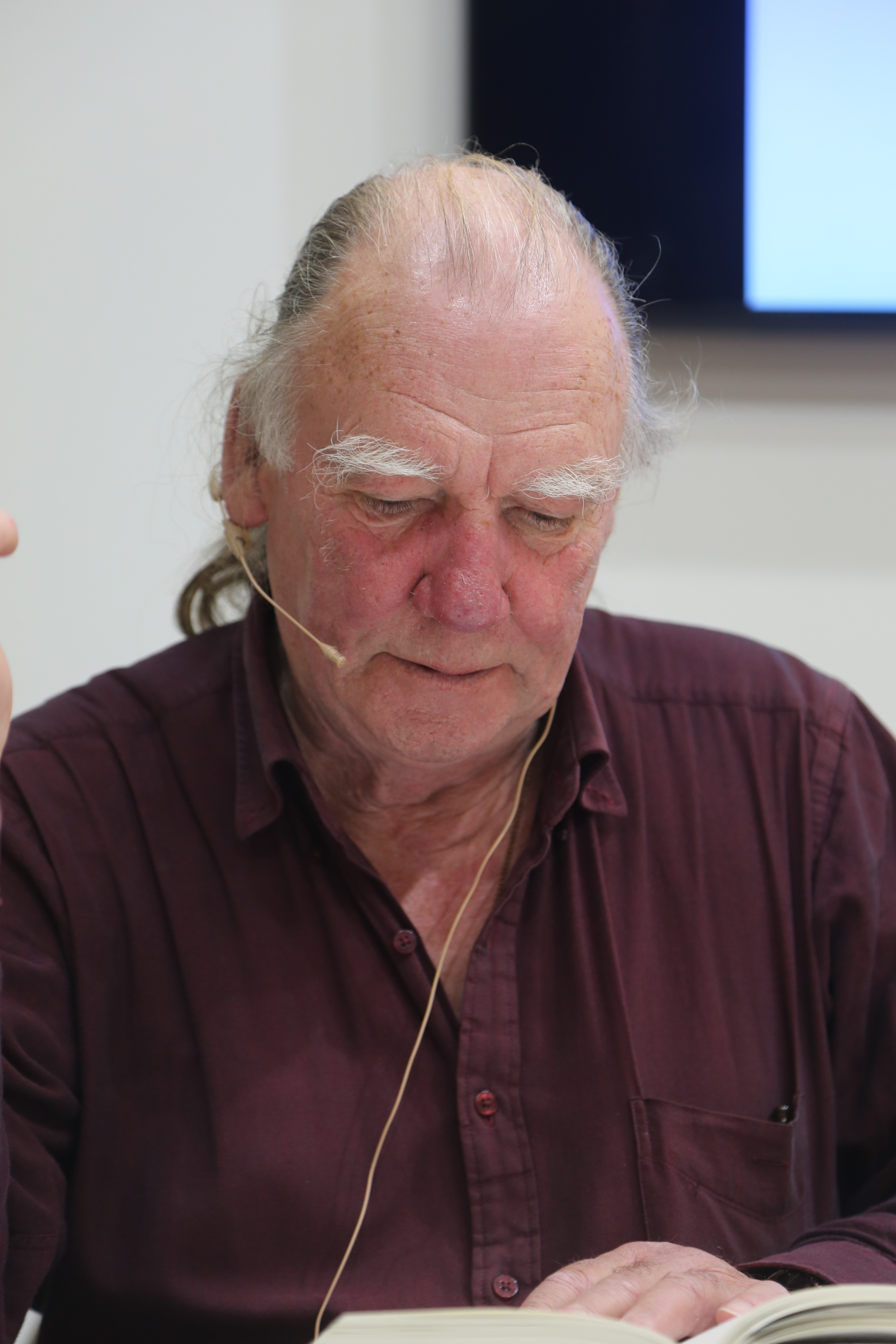 Johan Bergström at the Gothenburg Book Fair 2014.